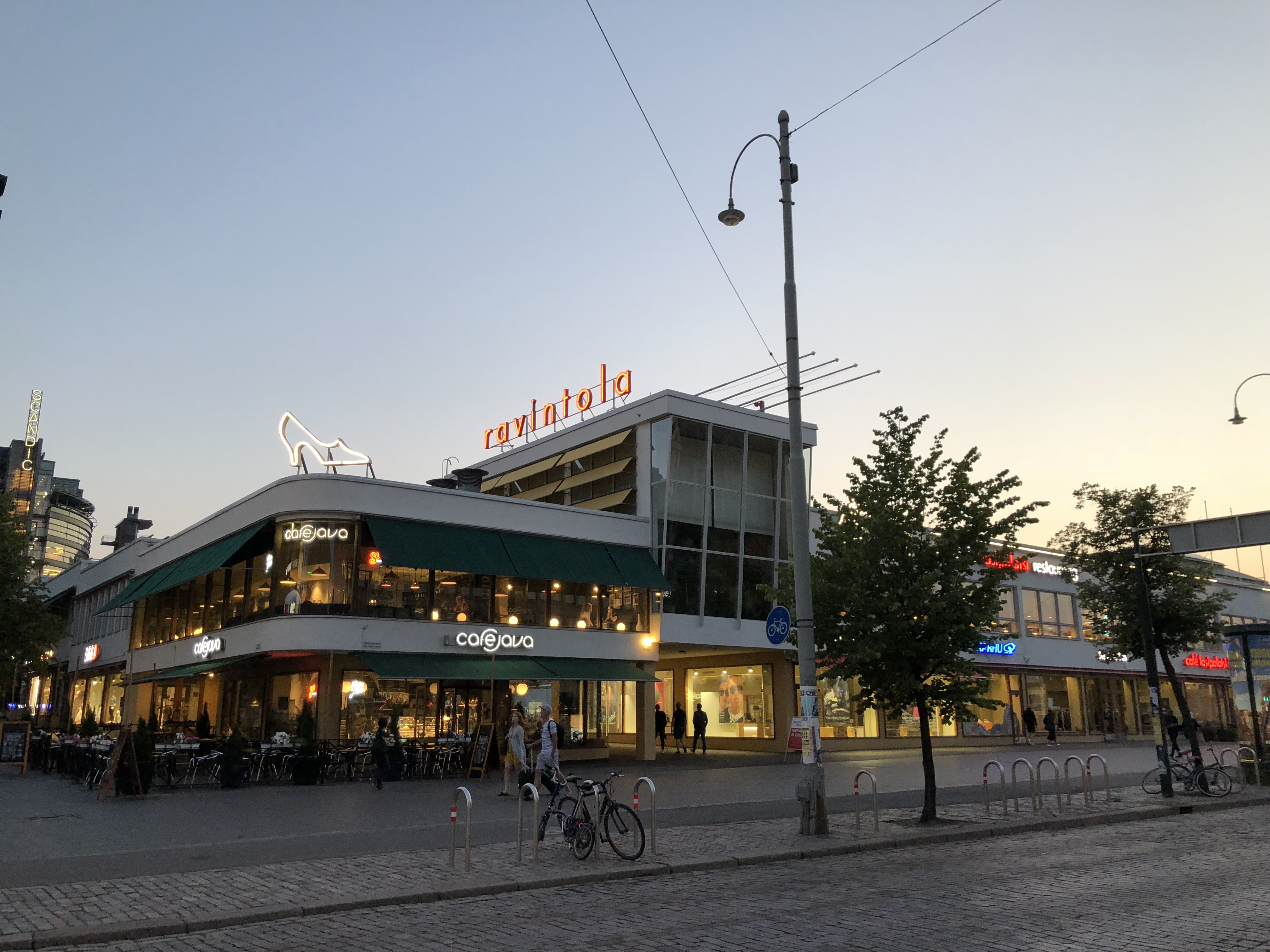 Lasipalatsi in August 2018 in Helsinki Finland.